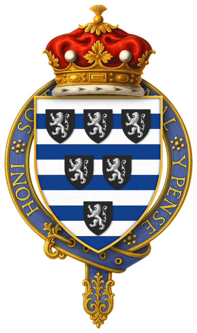 Garter-encircled shield of arms of William Cecil, 5th Marquess of Exeter, KG, as displayed on his Order of the Garter stall plate in St. George's Chapel.